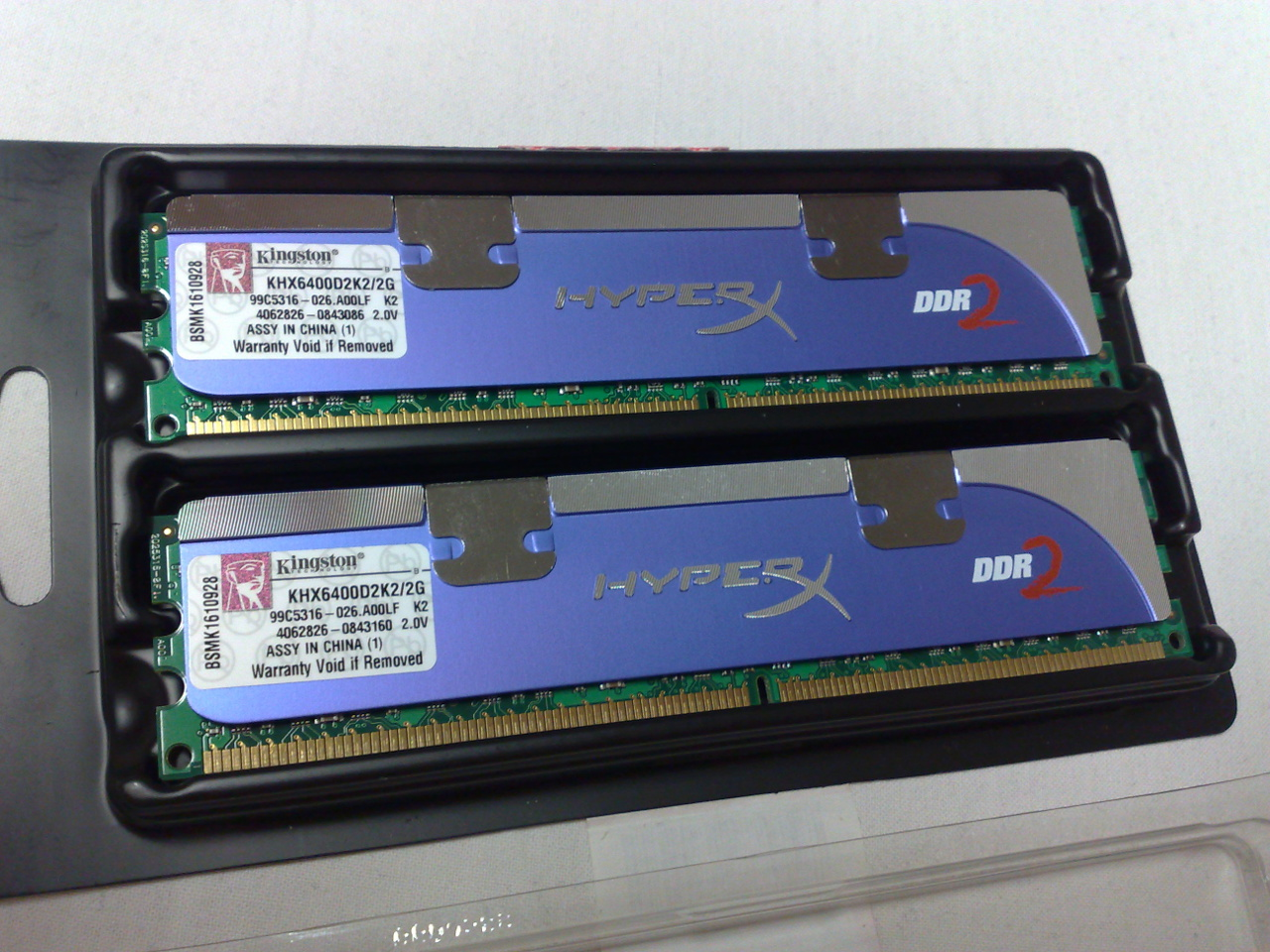 A pair of Kingston HyperX 1 GB DDR2-800 (PC2-6400) modules, p/n: KHX6400D2K2/2G (2 GB of RAM in total)